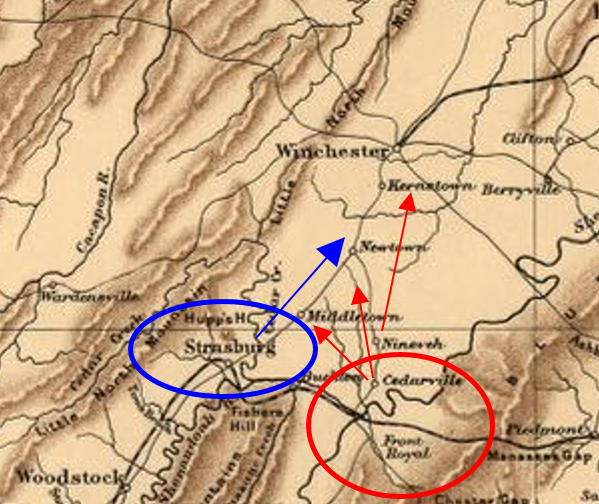 The map shows the area surrounding the site of the U.S. Civil War Battle of Front Royal and the First Battle of Winchester which occurred during May 1862 in the U.S. state of Virginia.